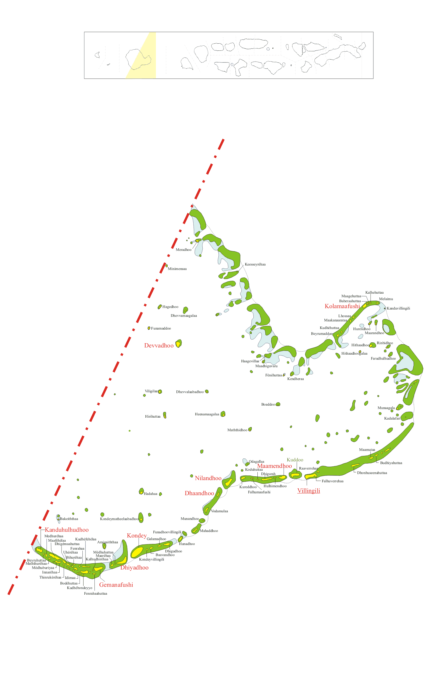 Summary Map of Gaafu_Alif_Atoll Map originally vector'ed by Hassan Waheed, Aabaadhuge of Thinadhoo island. Note: This section of map was extracted and its text was romanized by Oblivious. Special assitance by Waddey and Zuru Converted to PNG by helix84